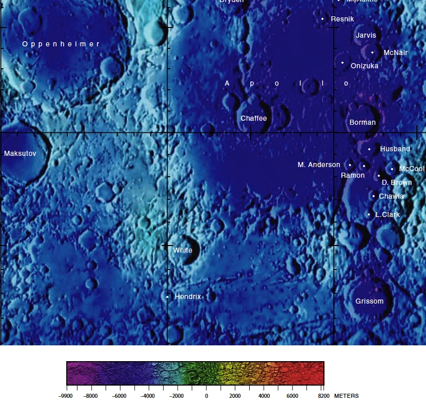 Part of the USGS far side lunar chart.